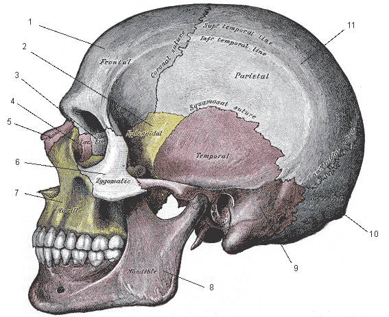 Side view of the skull.